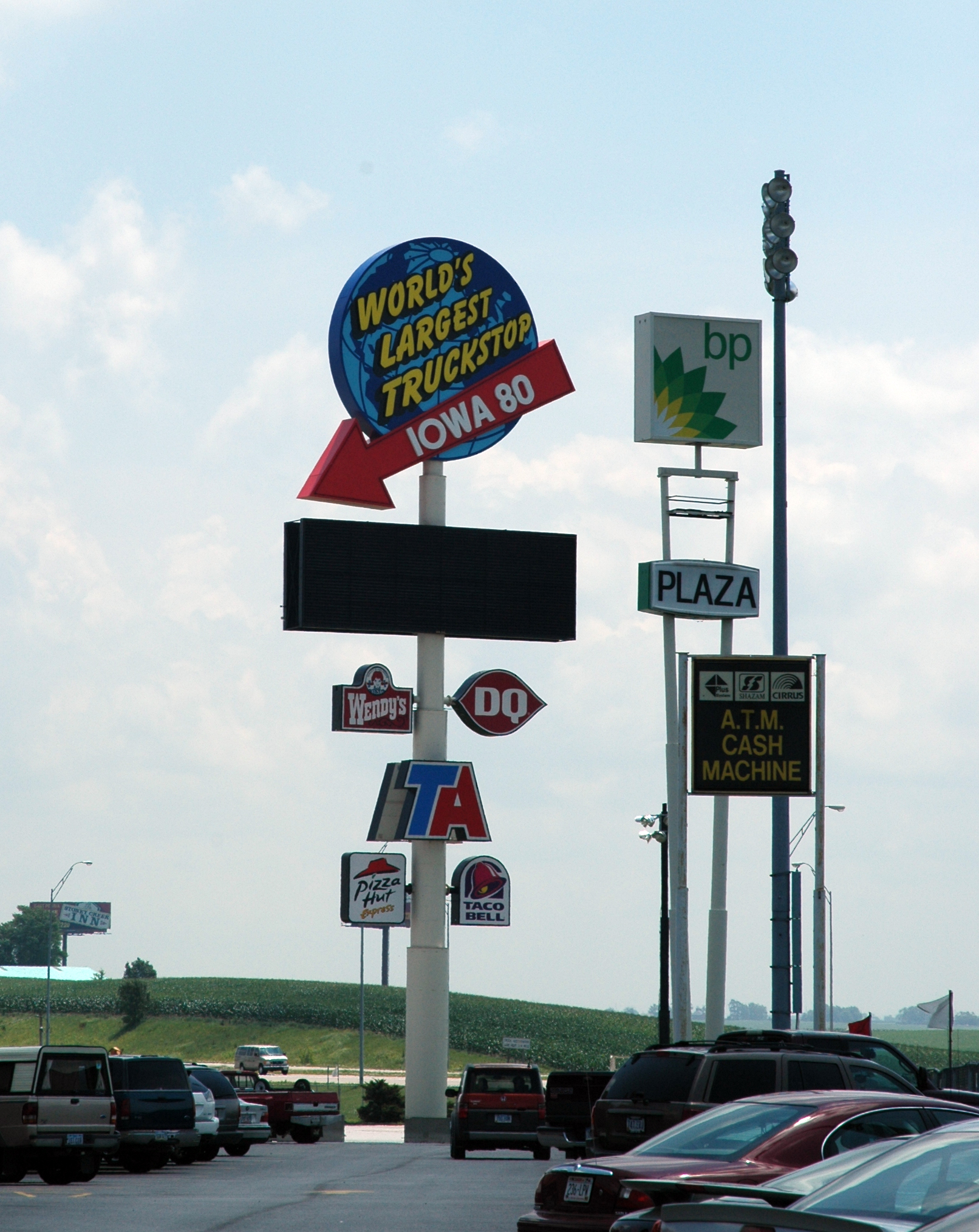 Signs at Iowa 80 truck stop